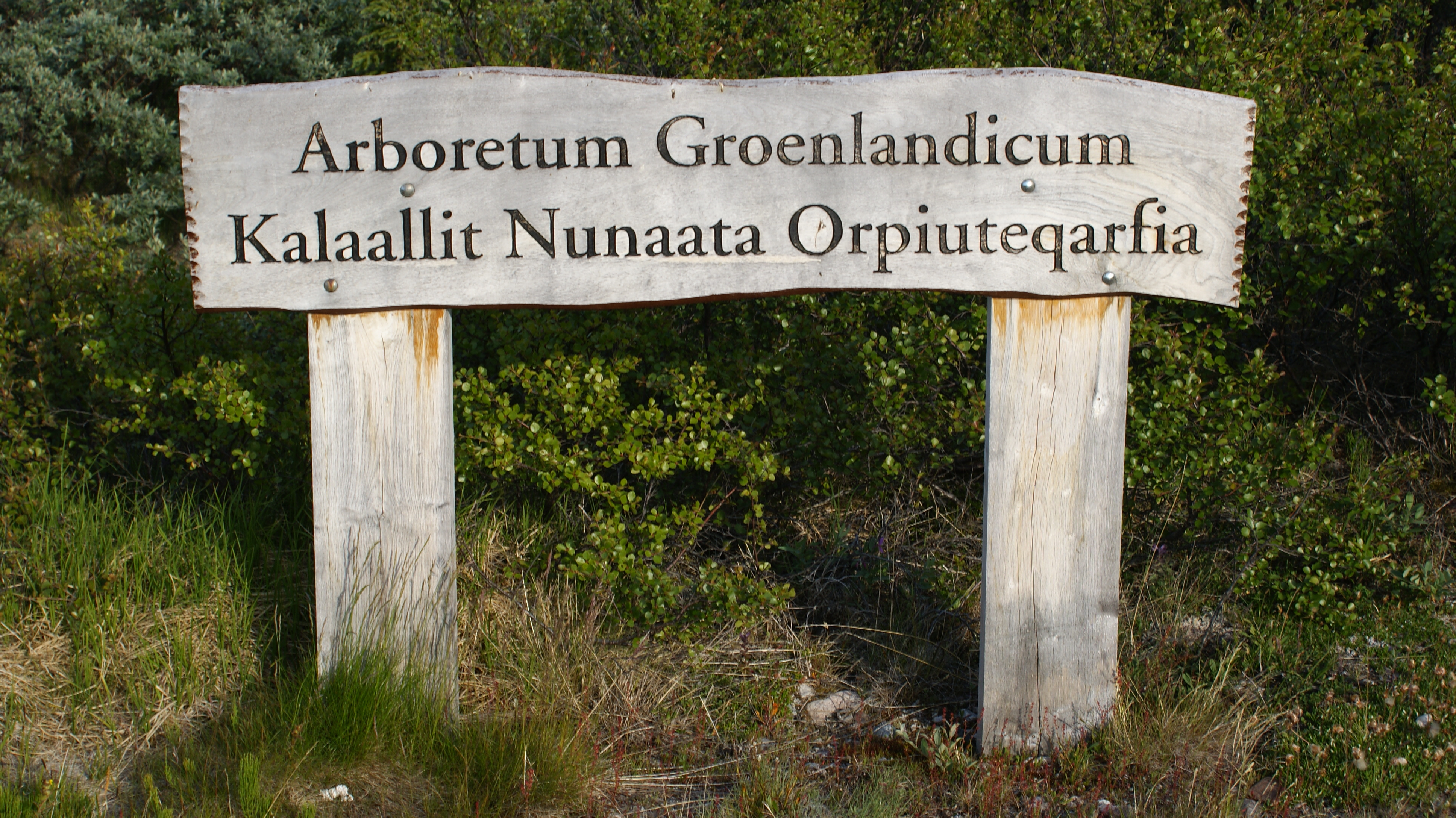 Arboretum Groenlandicum, a garden with set of transplanted boreal trees in Narsarsuaq, Greenland.